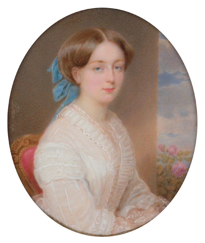 Princess Marie Amelie of Baden, Duchess of Hamilton and Brandon